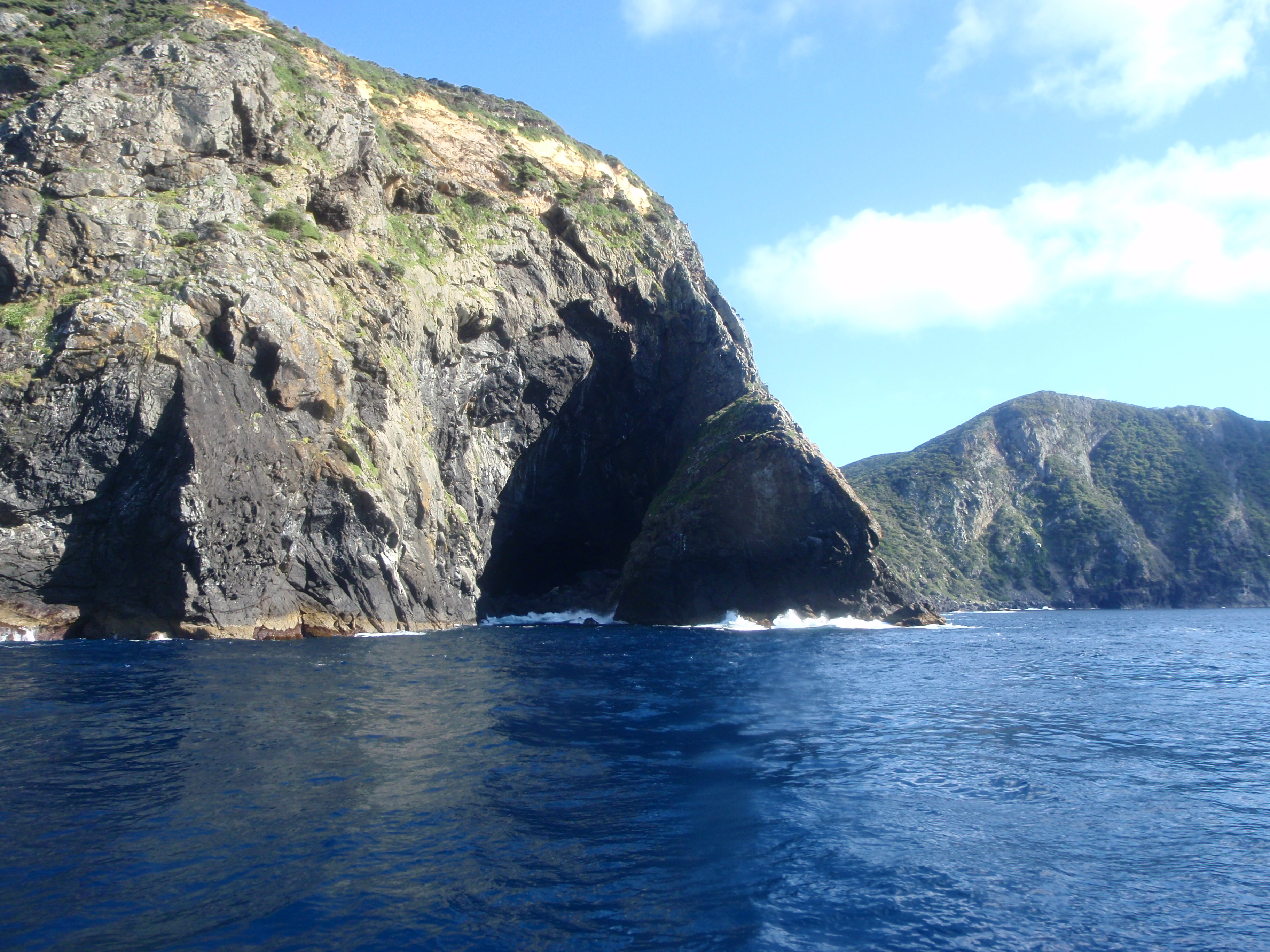 Three Kings Islands. Looking north with South-east bay to the right and possibly Tasman bay in foreground.